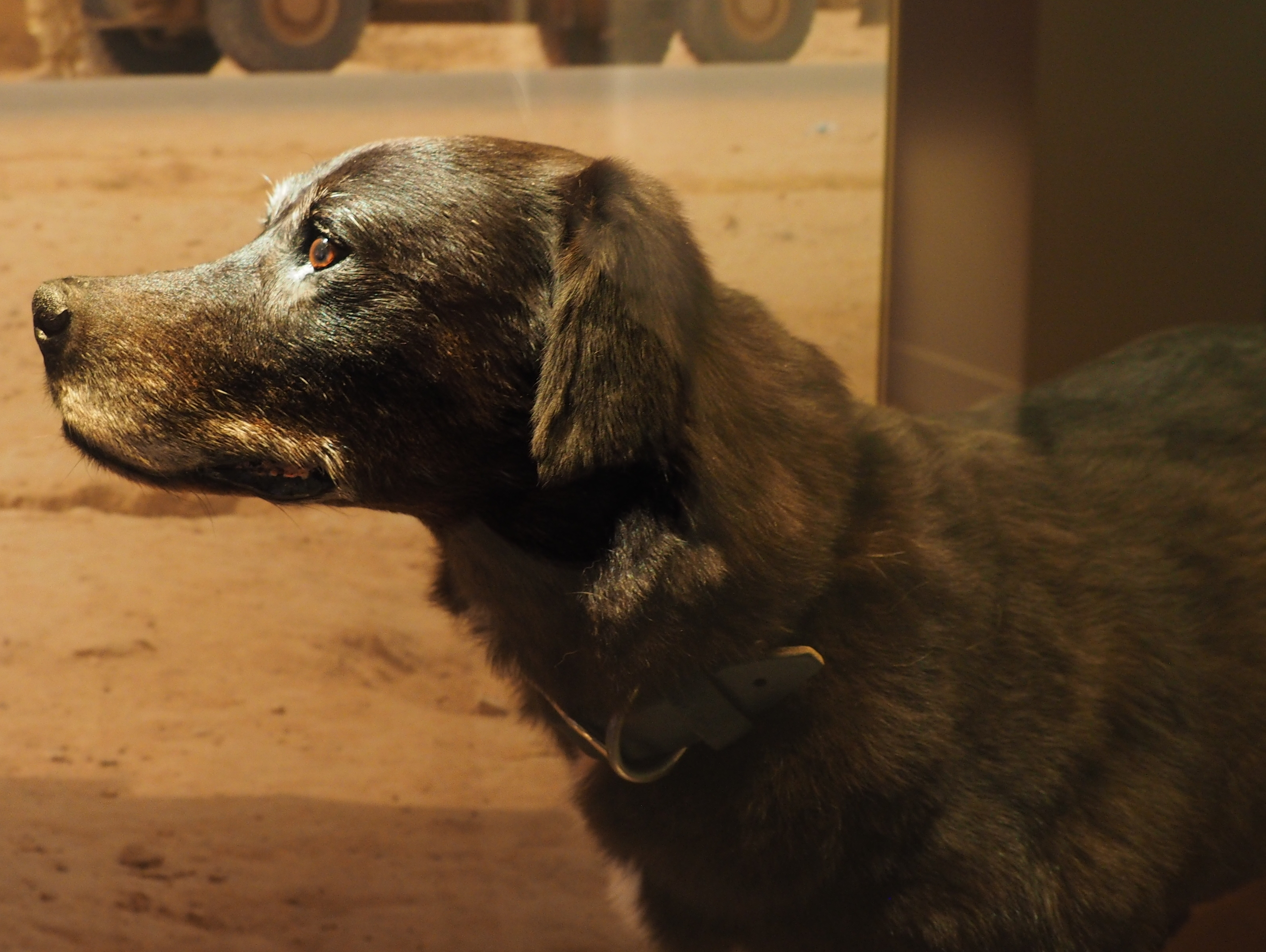 The preserved remains of Sarbi the military working dog at the Australian War Memorial